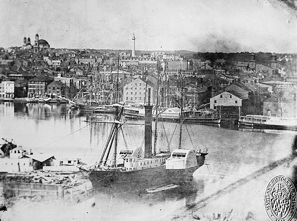 Baltimore - view - Harbor - from Federal Hill - ca. 1849 A steamship docked in Federal Hill in 1849 with the Basilica and the Washington monument in the distance.